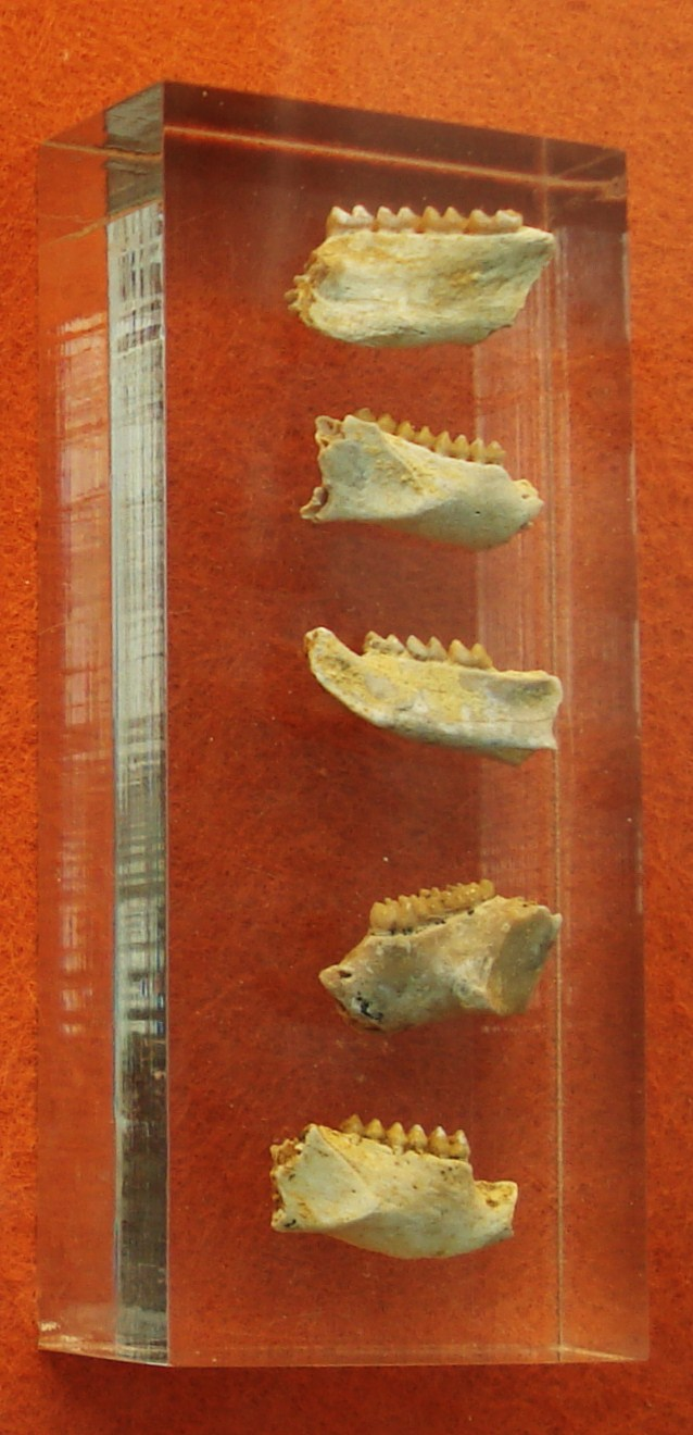 fossil of pseudosciurus